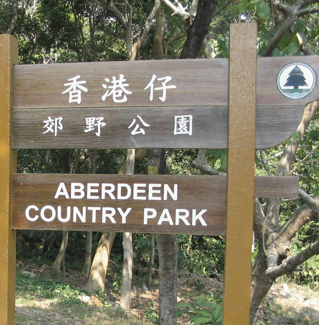 Description= 香港仔郊野公園 Source= self-made Author= ABADees